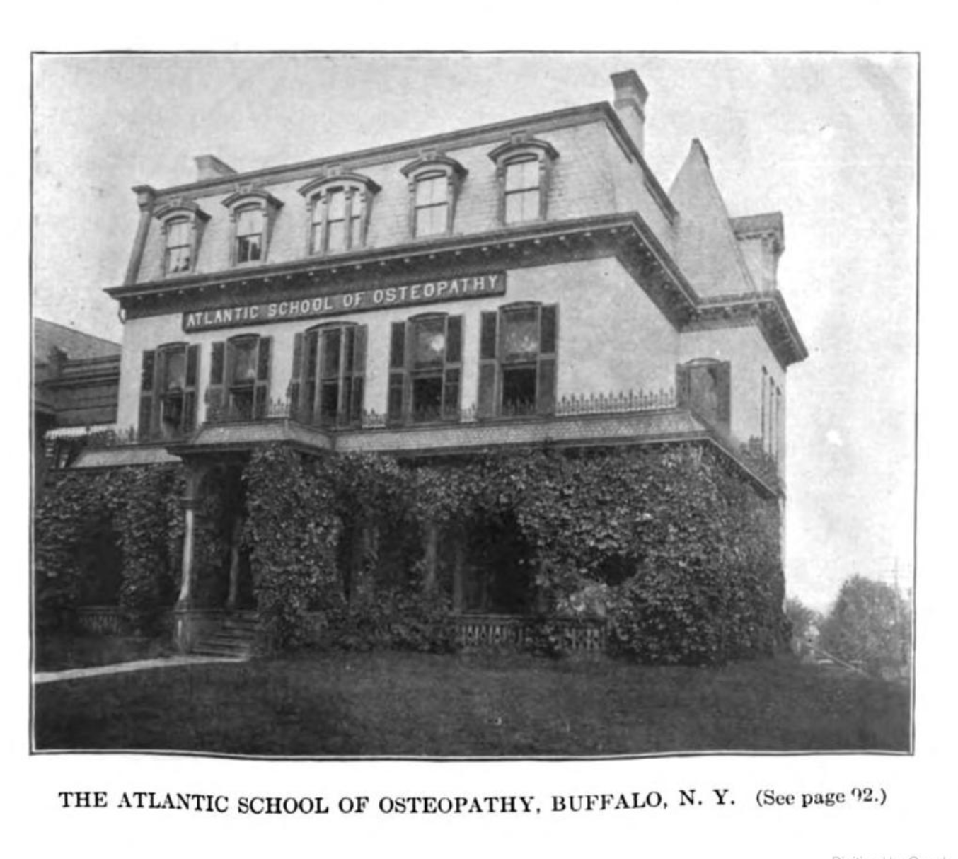 Views of the Atlantic School of Osteopathy at 1331 Main Street, Buffalo. Currently site of the Packard Apartments.